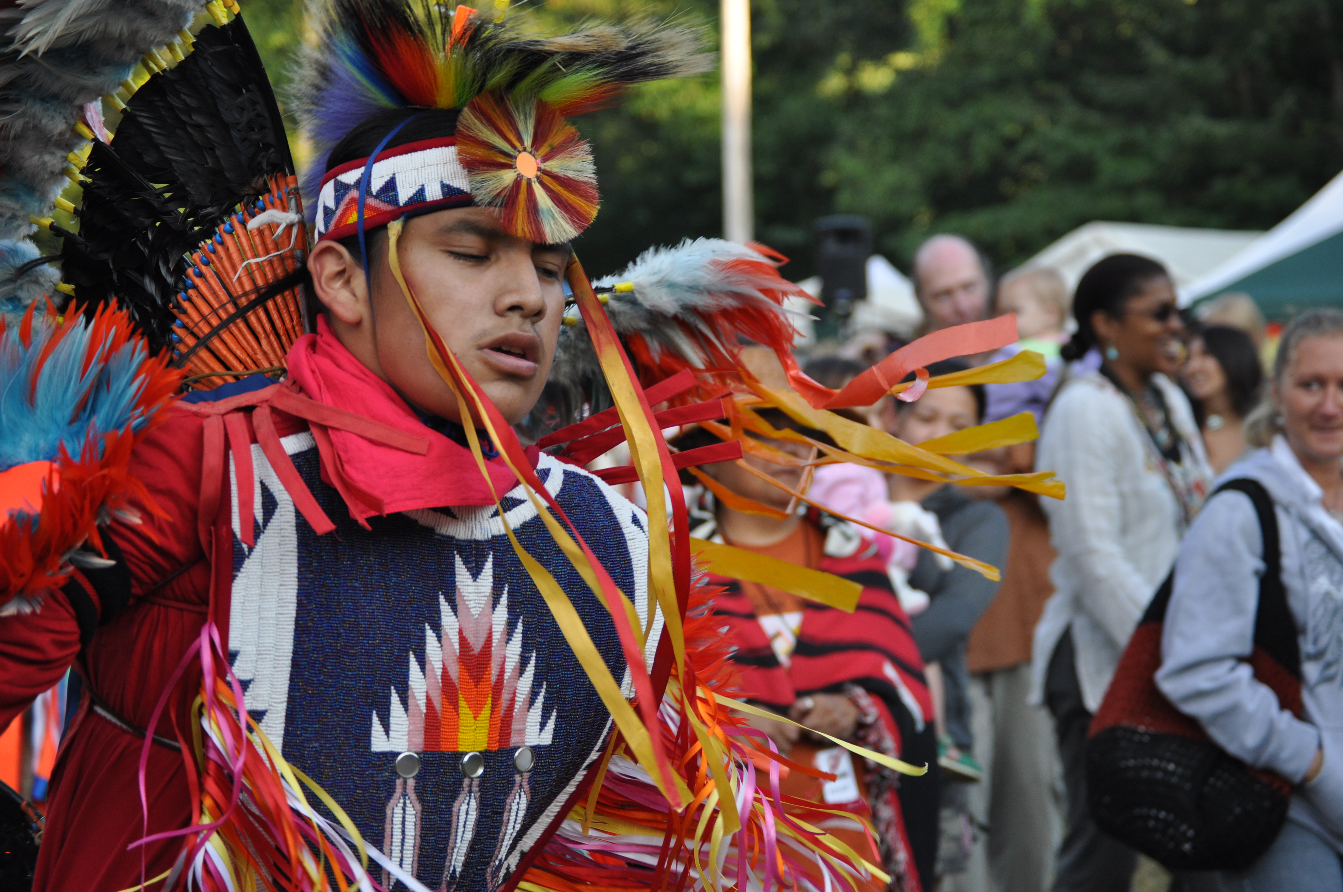 Seafair Indian Days Pow Wow, Daybreak Star Cultural Center, Seattle, Washington. The event is part of Seafair (a series of annual summer events in Seattle) and under the aegis of the United Indians of All Tribes Foundation.